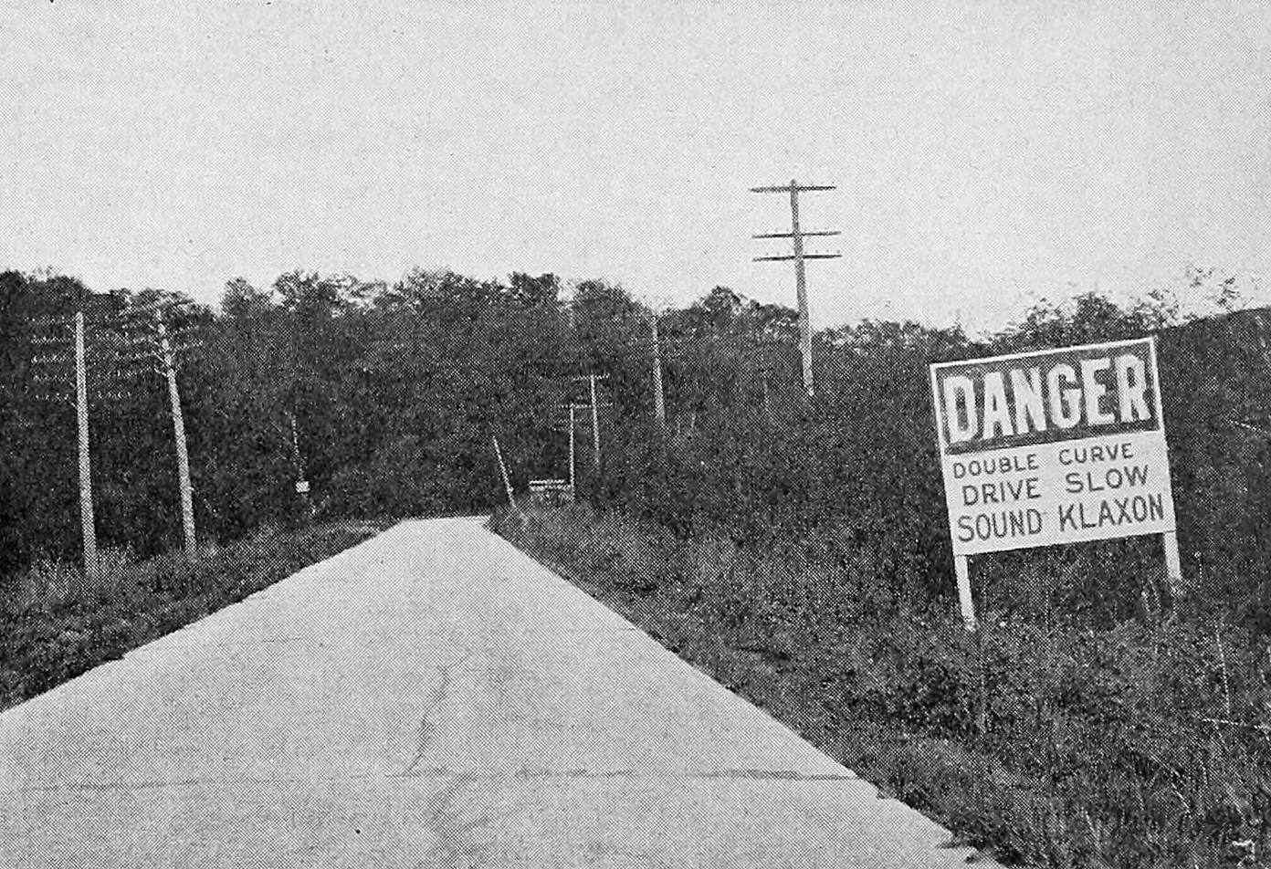 Sign warning to "sound klaxon". Identifier: communitycivicsr01dunn Title: Community civics and rural life Year: 1920 (1920s) Authors: Dunn, Arthur William, 1868-1927 Subjects: Country life Publisher: Boston, New York [etc.] O. C. Heath & Co Text Appearing Before Image: © Underwood and Underwood. The Signal for Cooperation in aCity Street (Traffic Policeman.) 46 COMMUNITY CIVICS Laws, however, are more than signals of cooperation;they are also rules by which cooperation is secured— rulesL of the game. Wherever people are dependent rules of upon one another and work together there must the game ^e rujeg Q£ con(juct. One kind of rules consists of what we call etiquette or good manners. We havedoubtless all observed how much better an .athletic contestmoves along, or even the ordinary sports of the playground, Text Appearing After Image: The Roadside Sign where good manners prevail. Good manners include morethan the party manners that we put on and take off onspecial occasions, like party clothes. They consist of theaccepted rules of behavior toward those with whom we asso-ciate. In the home, in school, in business, in public places,there are good manners that are recognized by custom andthat make the wheels move smoothly and without jar. We donot need a law or a policeman to require a man to give way WHY WE HAVE GOVERNMENT 47 to a woman, or even to another man, in passing through adoorway; good manners provide for this. Even on the publicstreet much confusion is avoided by an observance of goodmanners, or custom. Thoughtful people instinctively turn to the right in passing others (in England and Canada the customis to turn to the left) without thinking whether there is a lawon the subject or not. Now most of our laws that regulate the conduct of indi-viduals are simply rules that experience has proved to be ofthe grea